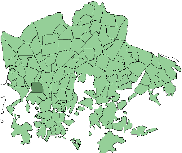 Districts of Helsinki, Ruskeasuo highlighted